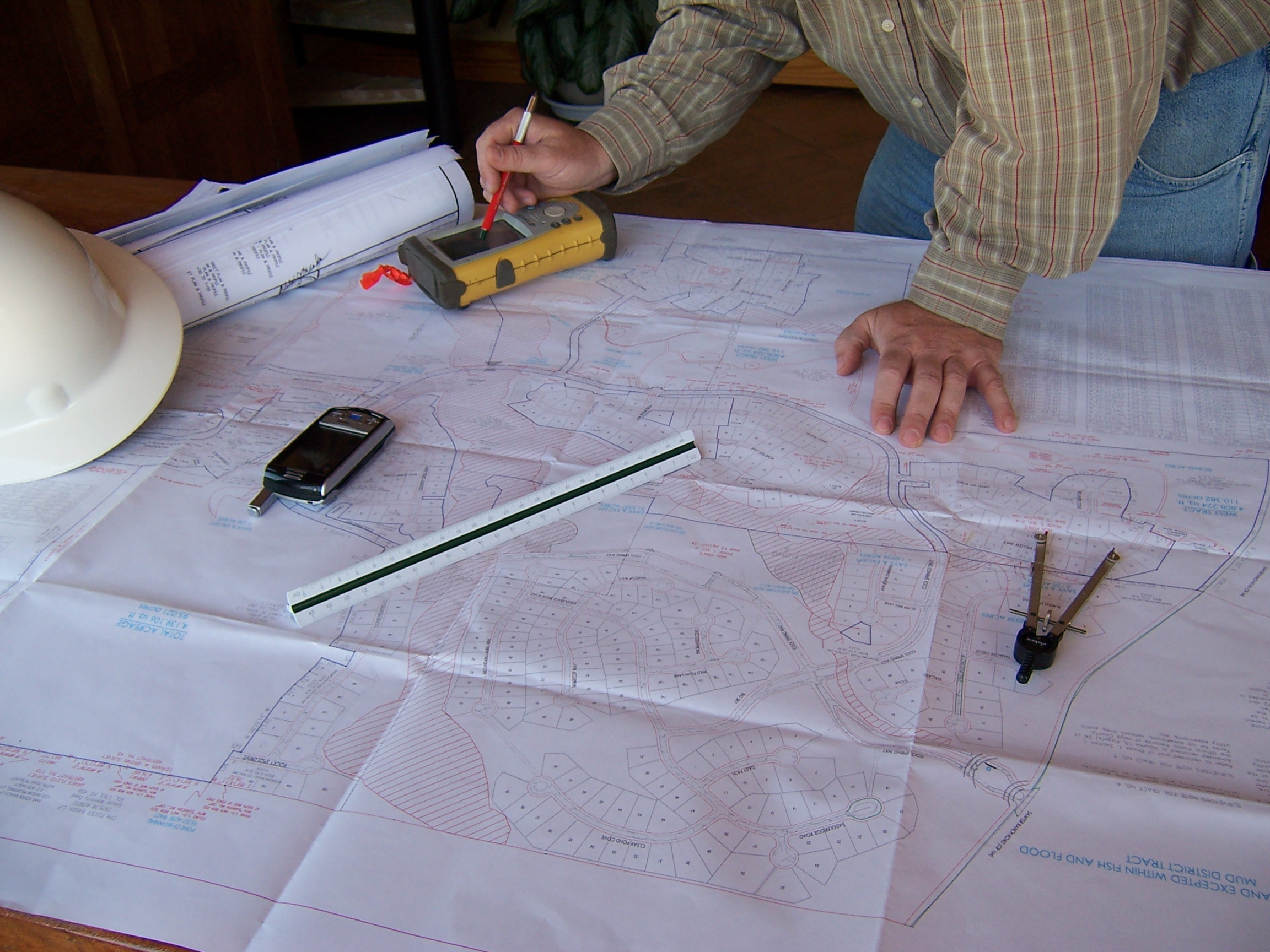 Al Bordeau Reviewing Plansets. Is this a plan of utilities like water supply, electricity, etc in a urban district (MUD District Tract = Municipal Utility District)? which? what device is lying there?